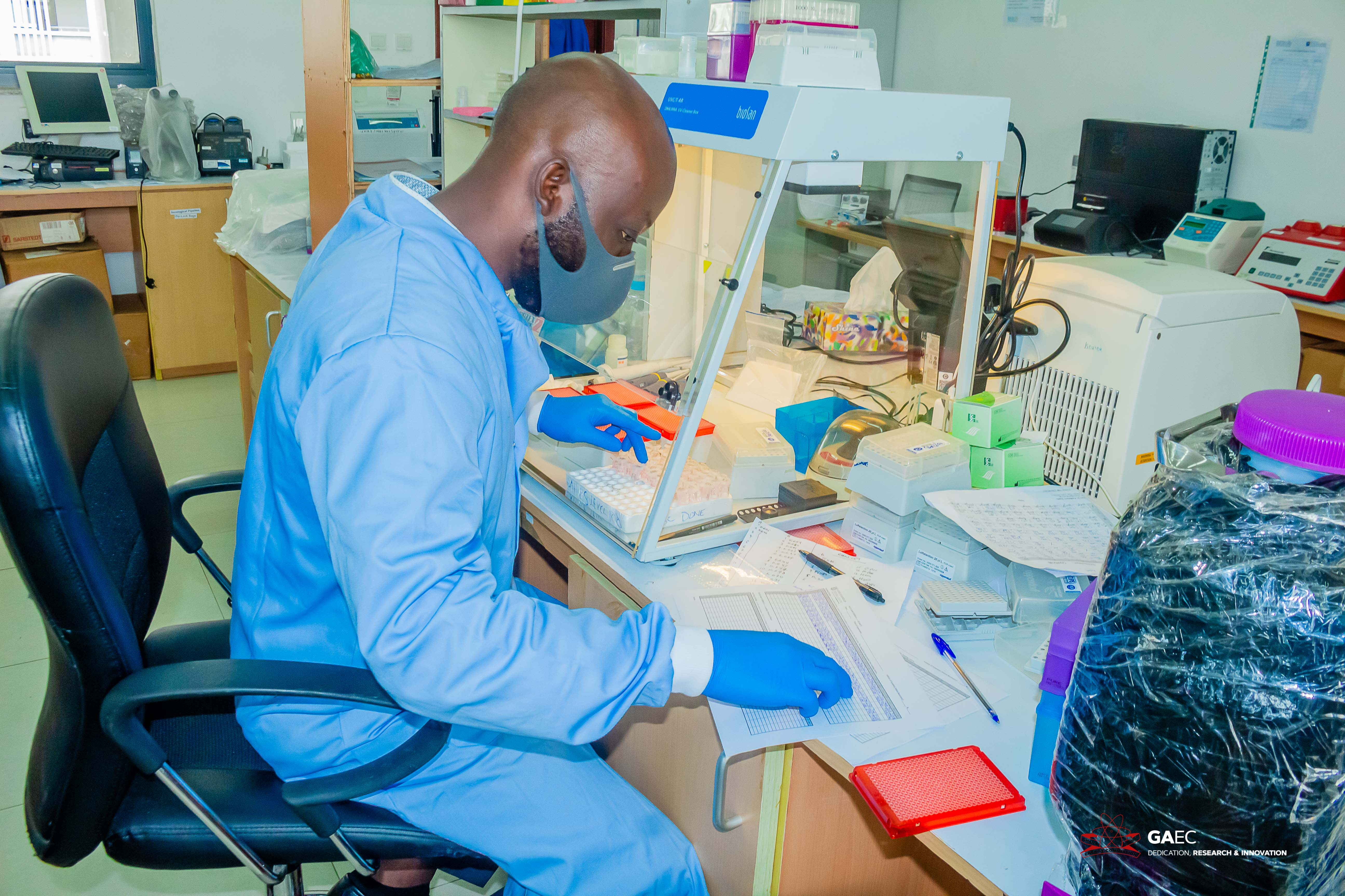 Assistance to Ghana for diagnostics of COVID-19 On 14 May 2020, the Ghana Atomic Energy Commission handed over a set of COVID-19 testing kits donated by the IAEA to the Ministry of Health in Accra, Ghana The International Atomic Energy Agency (IAEA) is dispatching equipment to countries around the world to enable them to use a nuclear-derived technique to rapidly detect the coronavirus that causes COVID-19. This emergency assistance is part of the IAEA's response to requests for support from Member States in controlling an increasing number of infections worldwide. Photo Credit: Prof B.J.B Nyarko/GAEC